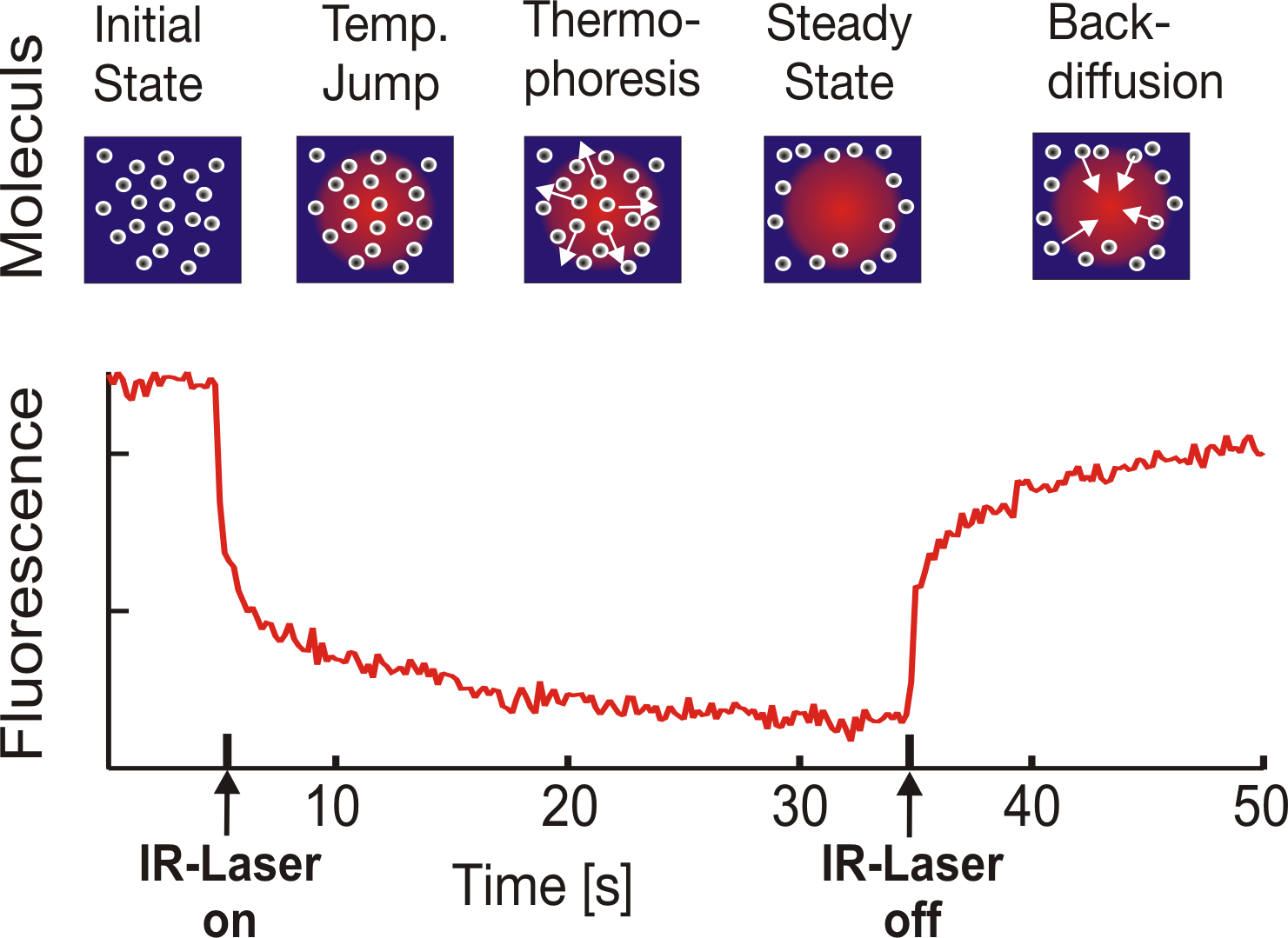 Microscale Thermophoresis. The fluorescence inside a capillary is measured and the normalized fluorescence in the heated spot is plotted against time. The IR-laser is switched on at t=5 s and the fluorescence changes as the temperature increases. There are two effects, separated by their time-scales, contributing to the new fluorescence distribution: the fast temperature jump (time scale ≈ 3 s) and the thermophoretic movement (time scale ≈ 30 s).